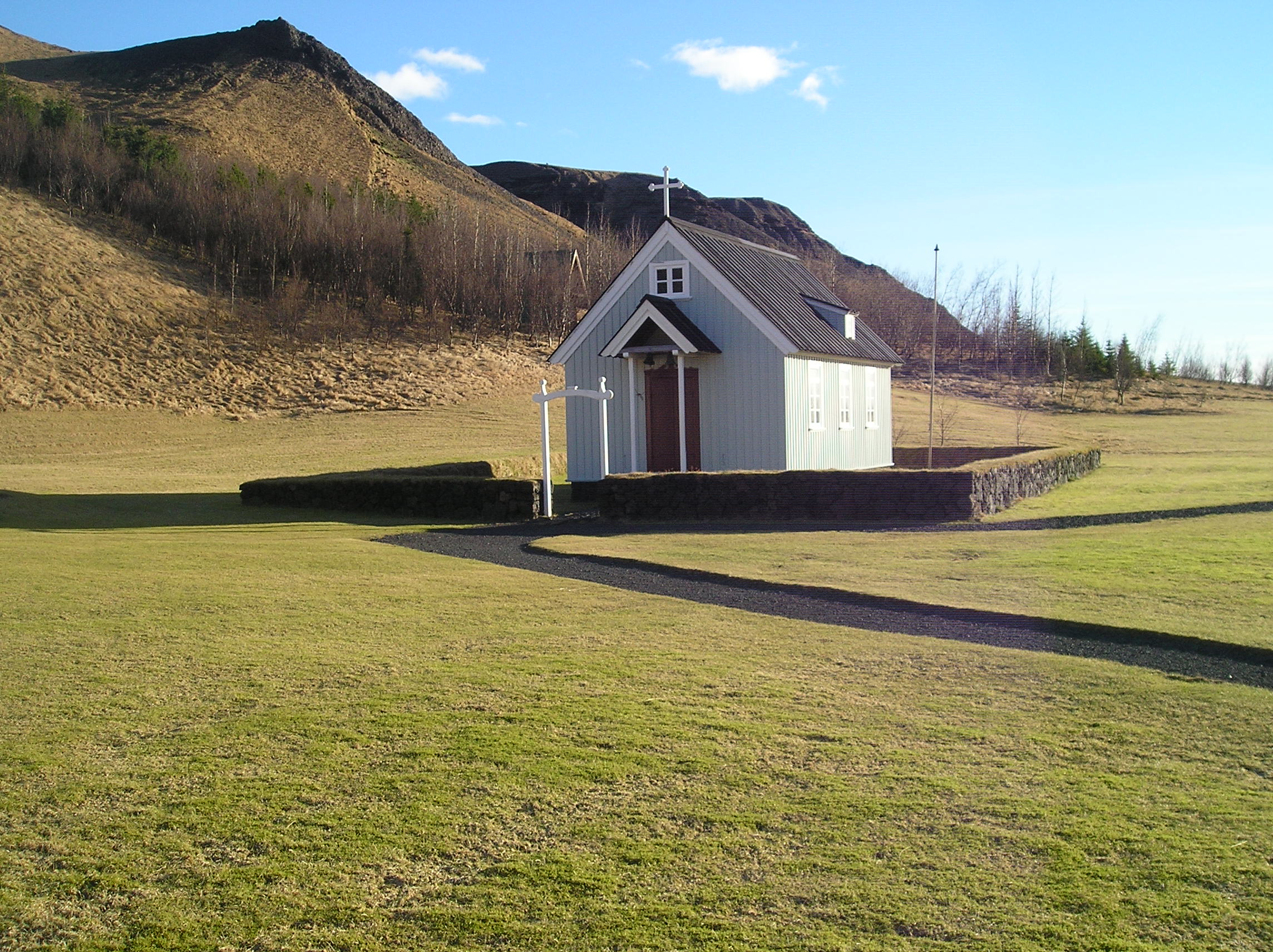 View of the church of Skogar (Skogarkirkja). 15th feb. 2006 by Najette Guimard